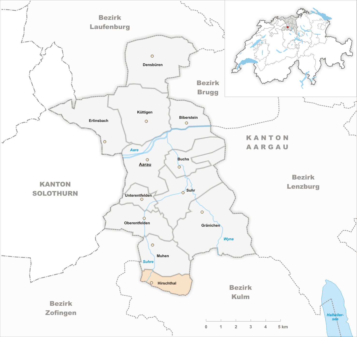 Municipality Hirschthal